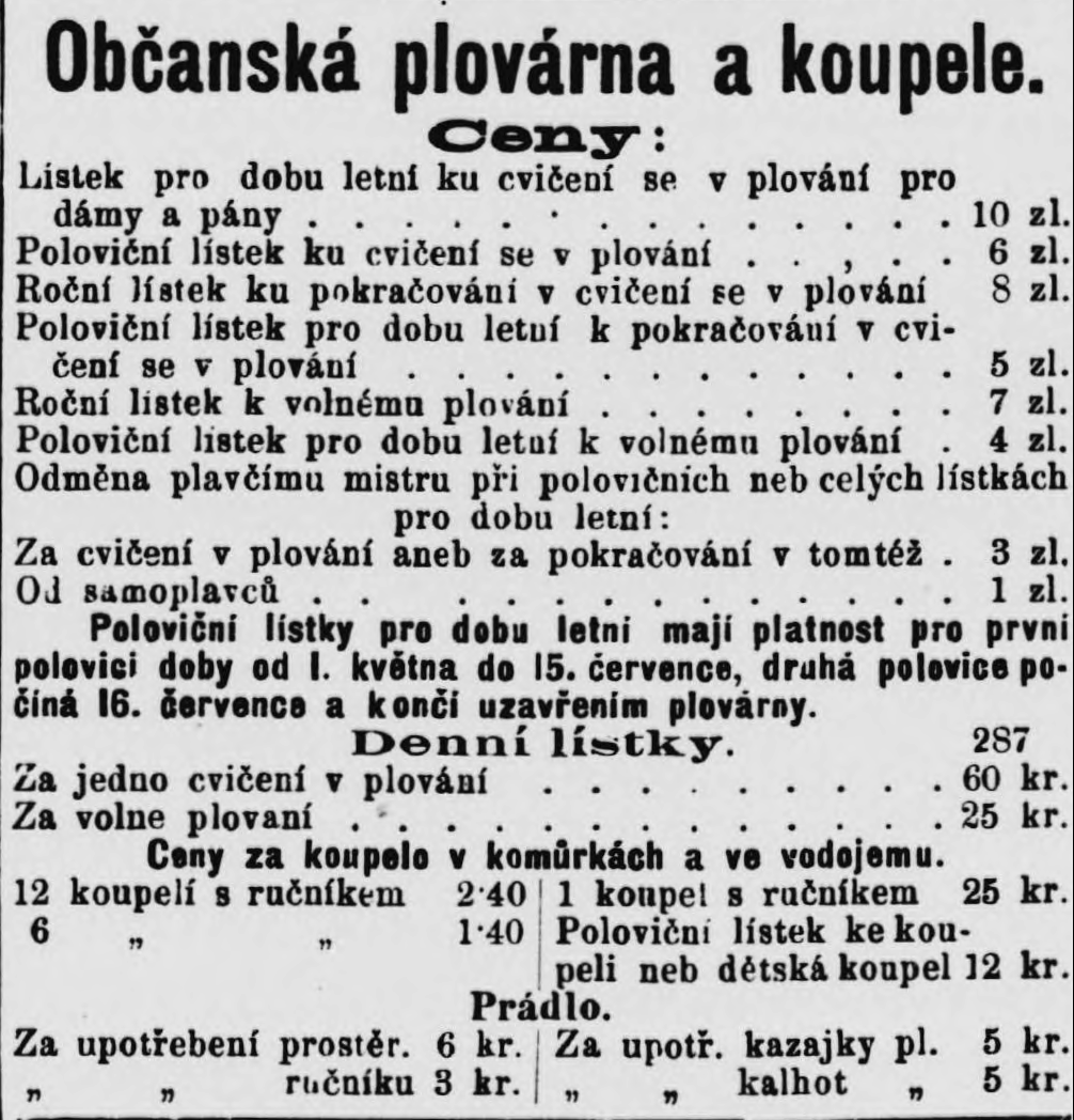 Prague river bath, price list 1880